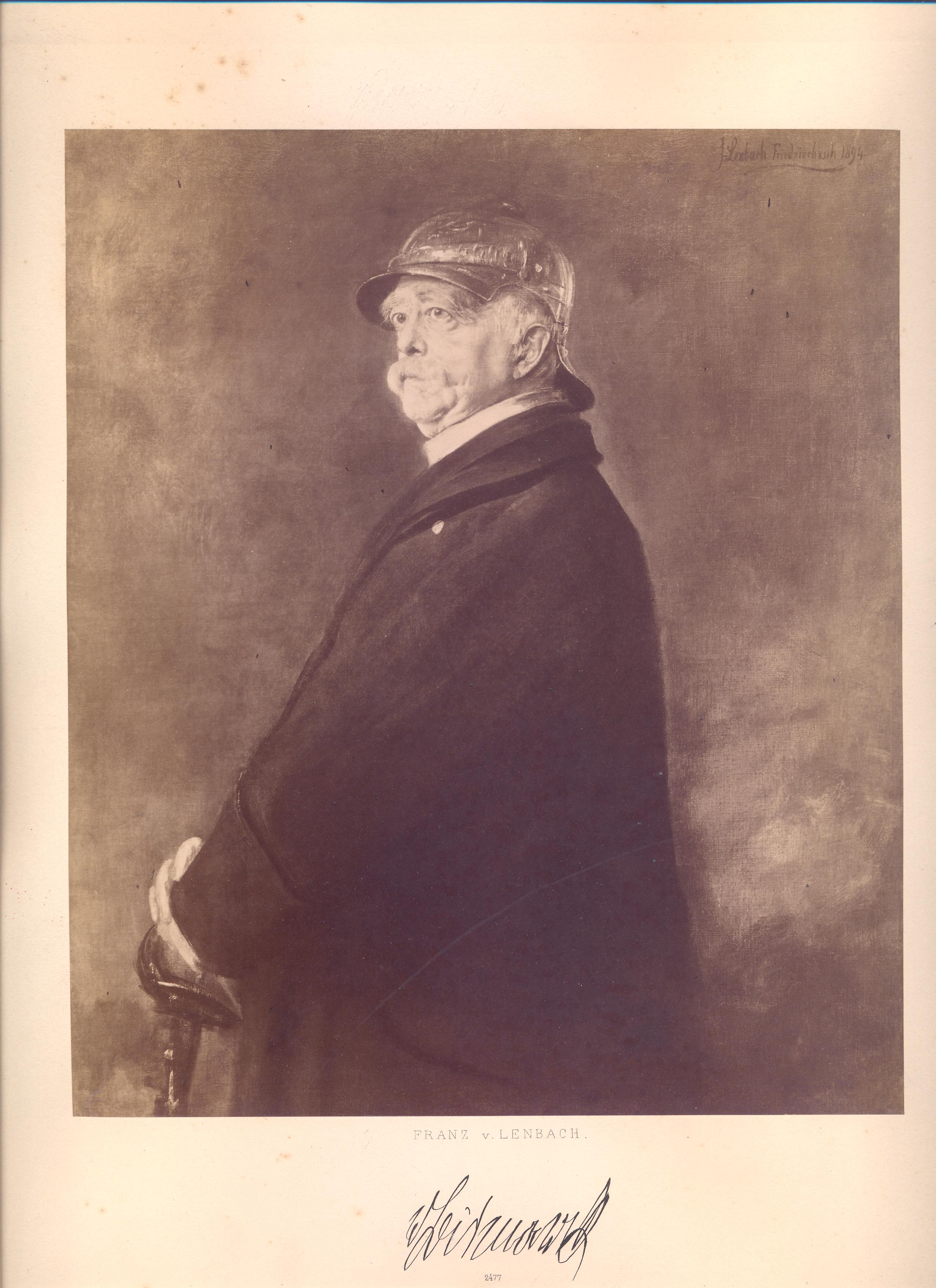 Otto von Bismarck, album with pictures of Bismarck, published for the 80th anniversary of his birth in Berlin in 1895